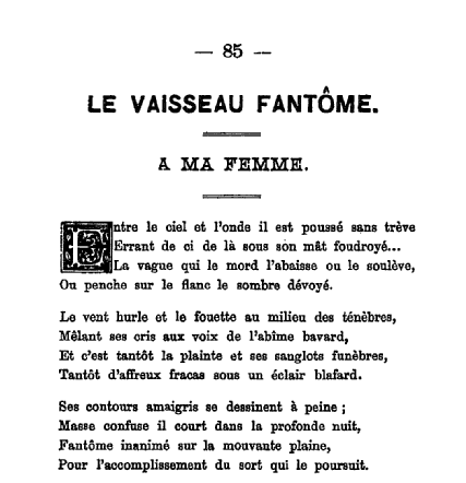 First stanzas of 'Le Vaisseau fantôme' ("The Phantom Ship"), French-language poem by the Romanian writer Alexandru Macedonski, as originally published in L'Élan littéraire